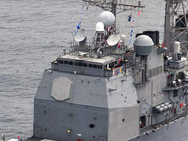 100901-N-2953W-151 PACIFIC OCEAN (Sept. 1, 2010) The guided-missile cruiser USS Lake Champlain (CG 57), the guided-missile destroyer USS Stockdale (DDG 106), and the guided-missile frigate USS Rentz (FFG 46) are underway off the coast of Southern California. (U.S. Navy photo by Mass Communication Specialist 2nd Class Adrian White/Released)